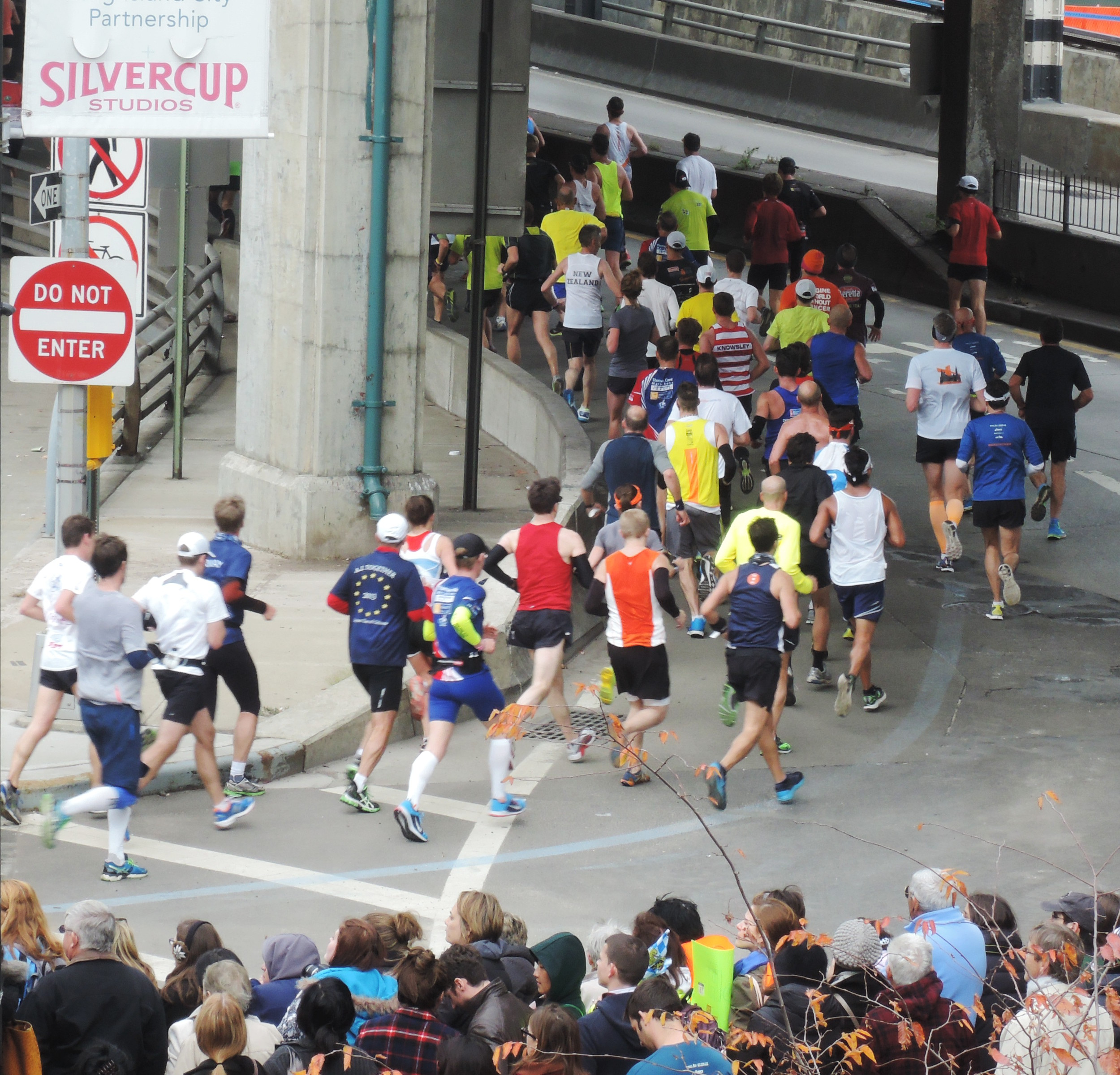 Looking northwest from south walkway of Queensboro Plaza station as thundering herd round the curve from Crescent Street onto the bridge.